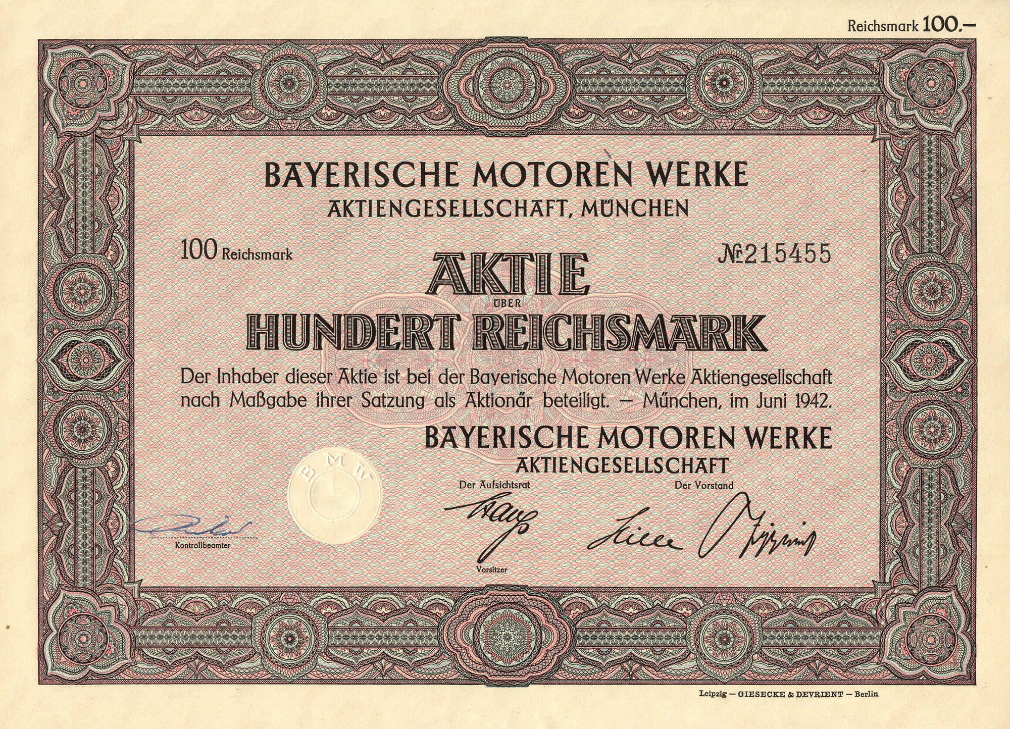 Share of BMW